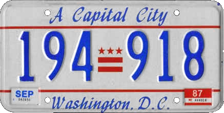 District of Columbia license plate, 1984-1991